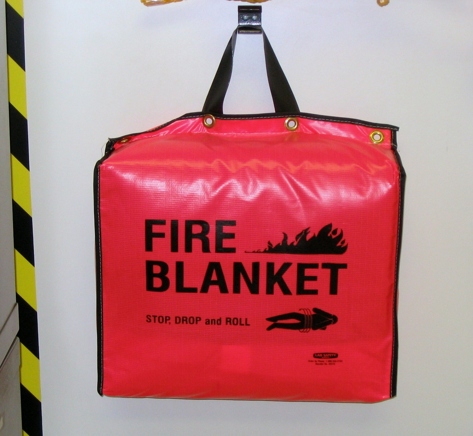 A fire blanket on display in an office safety center.